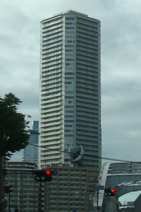 The Apartments Tower Kachidoki at Kachidoki, Chuo city, Tokyo